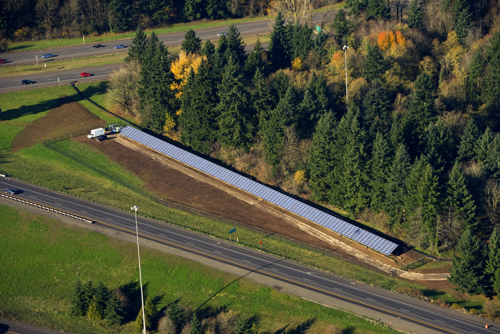 Aerial view of Oregon's Solar Highway project site along the interchange of Interstate 5 and Interstate 205 near Tualatin.